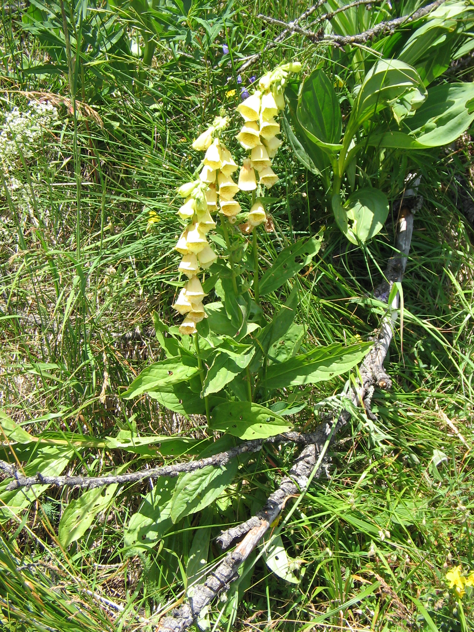 Digitalis grandiflora